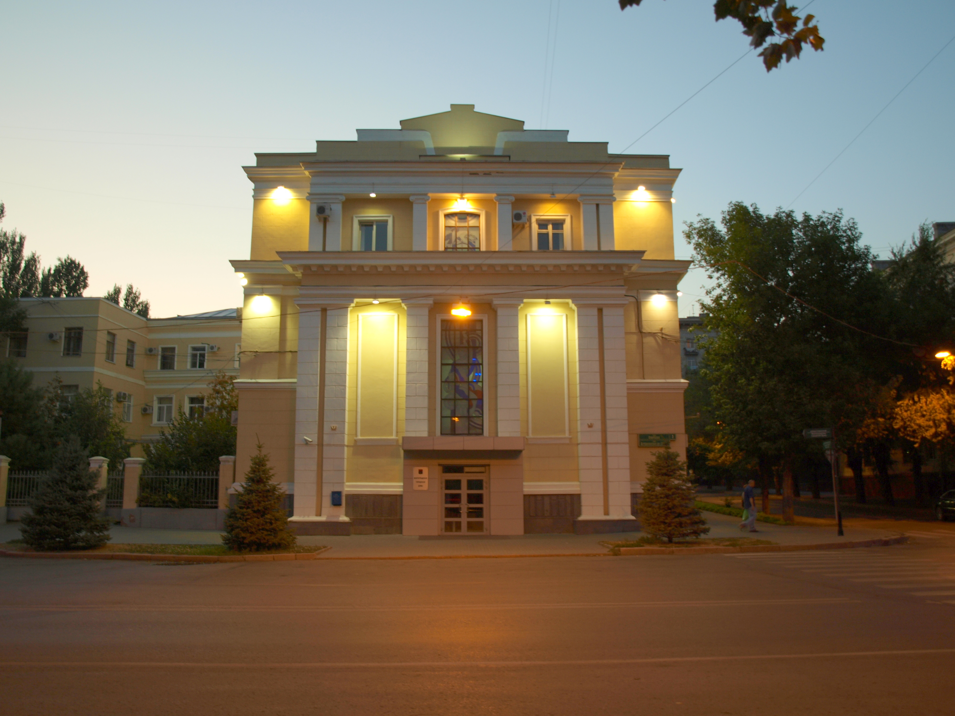 Municipality of Volgograd